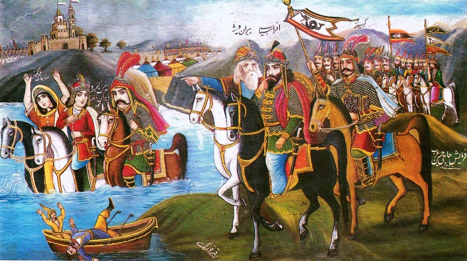 Departure of Kaykhosrow's mother and grandmother toward Iran